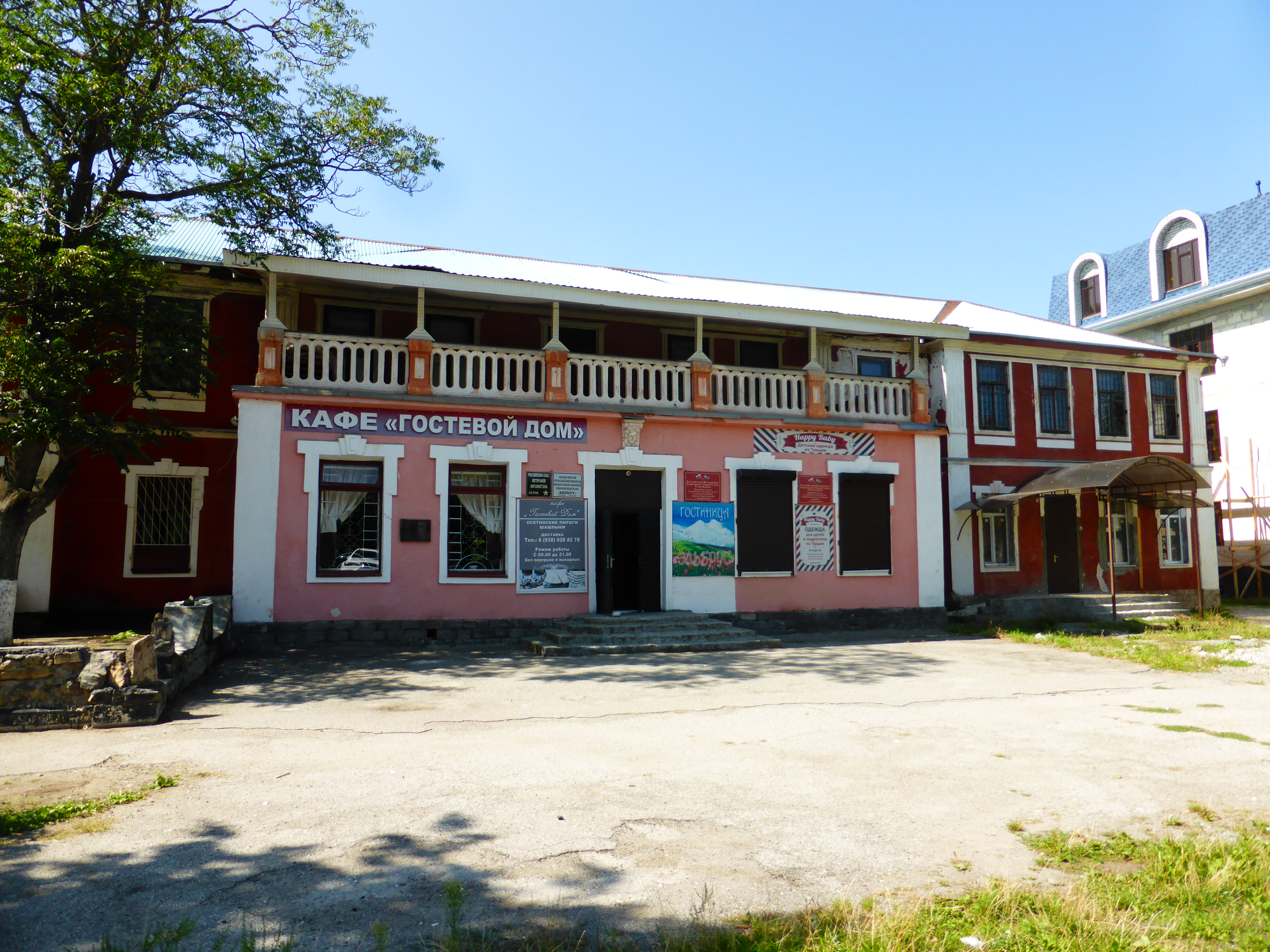 The building where we stayed and played a prominent figure of the Bulgarian and international movement, Georgi Dimitrov